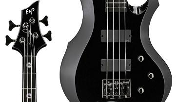 Tom Araya Signature Bass by ESP Guitars